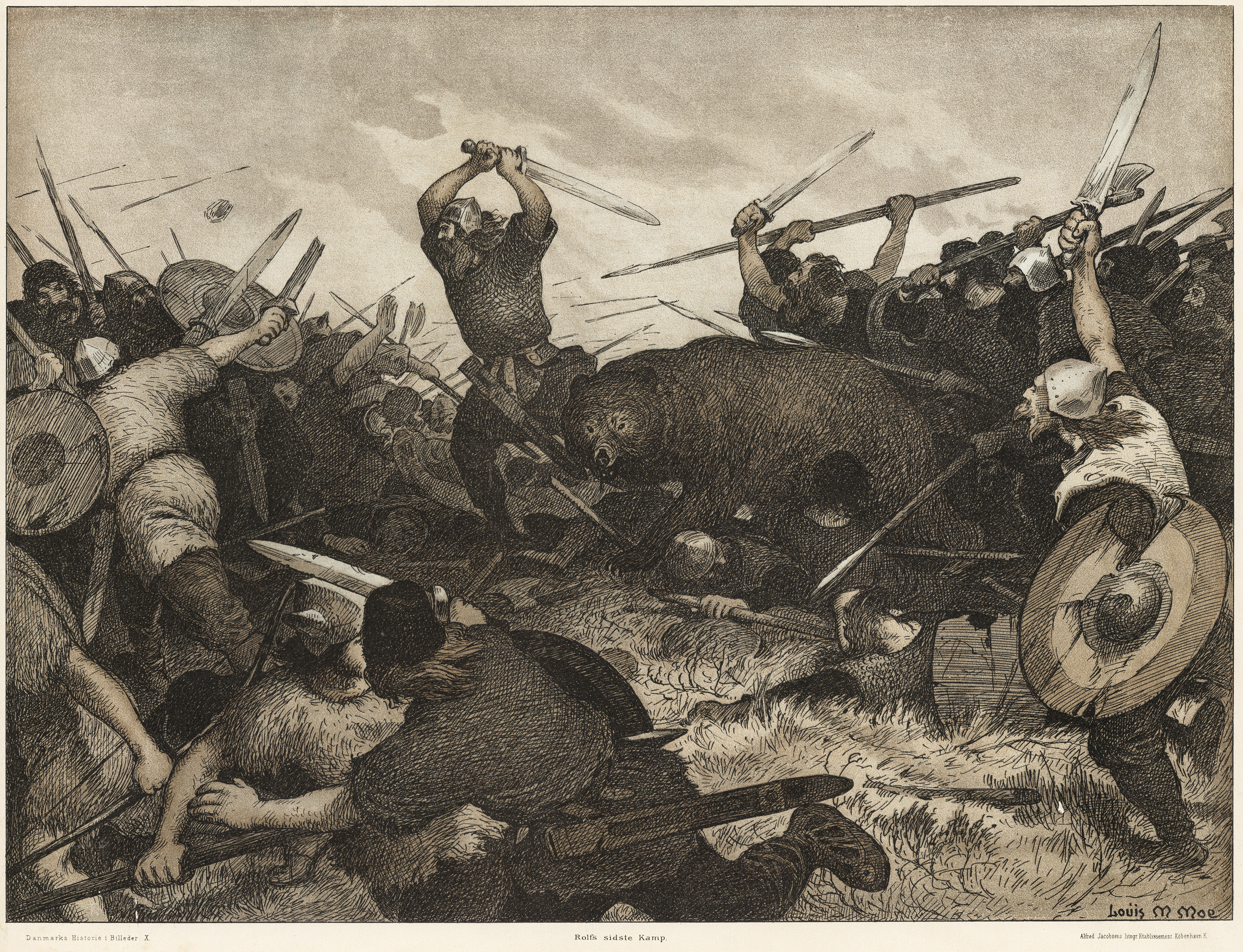 Hrólfr Kraki's last battle. Colour lithograh on paper, glued on cardboard. Signed lower right: Louis M. Moe. Text: Danmarks Historie i Billeder X. Rolfs sidste kamp. Alfred Jacobsens litogr. Etablissement, København K. The collection consisted of 50 illustrations, museum no. 17.001-17.049, with No. VI and L (50) missing. Published in 1898, documented in V.E. Clausen: Folkelig grafik i Skandinavien, 1973, page 144. This version har been cropped and slightly rotated by uploader.